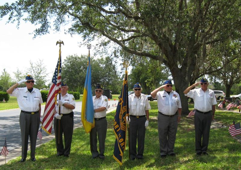 Memorial Day 2011 - Cpl. Roman G.Lazor Post 40, North Port, Florida. "Salute to the Veterans" L to R; Commander Ihor Hron, Jerry Zinycz PPC, John Homick, Julian Helbig, Col. Roman Rondiak (Ret), George Baranowskyj DDS. Photo by Jerry Zinycz.